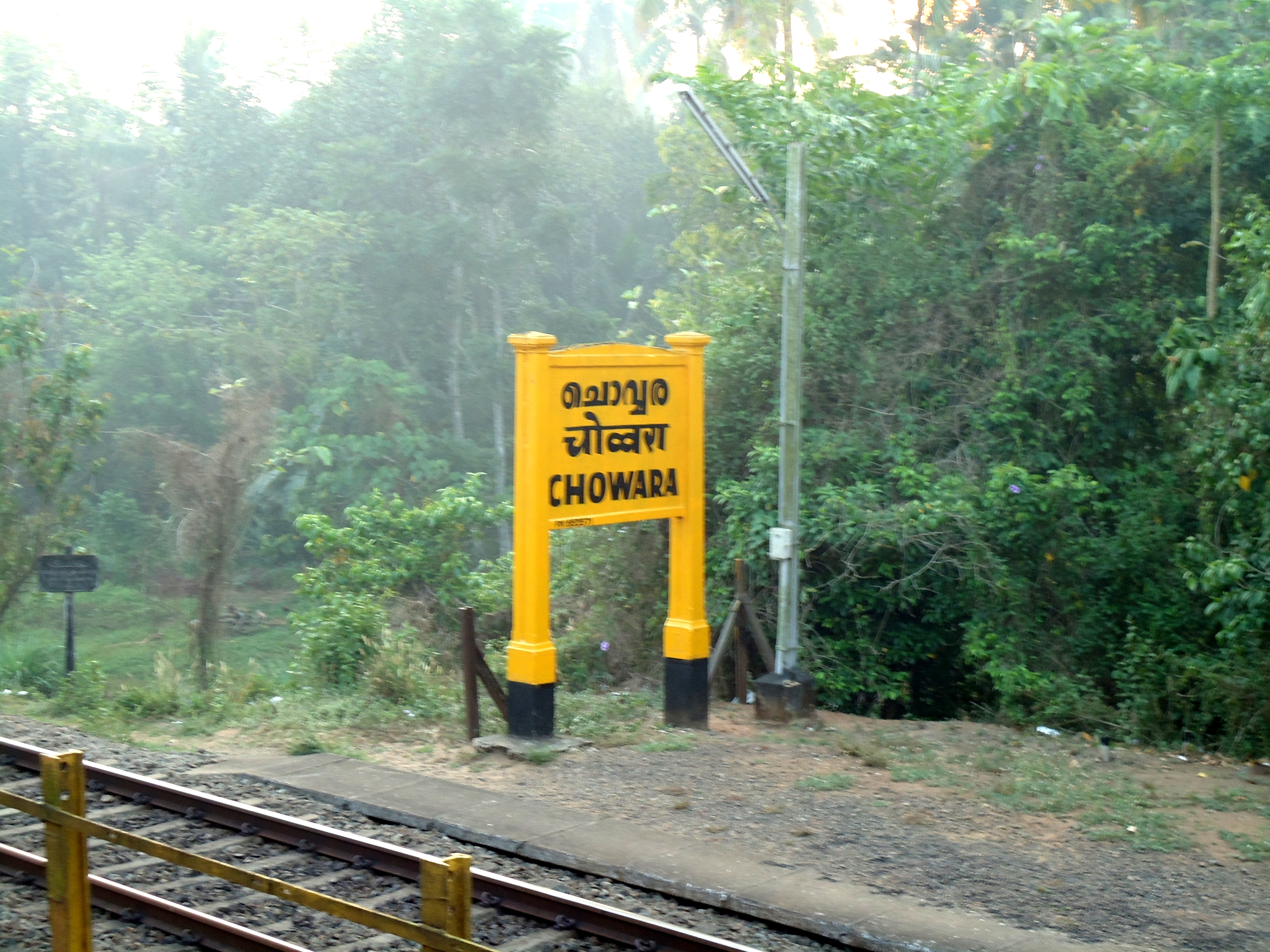 Chowara Railway Station board